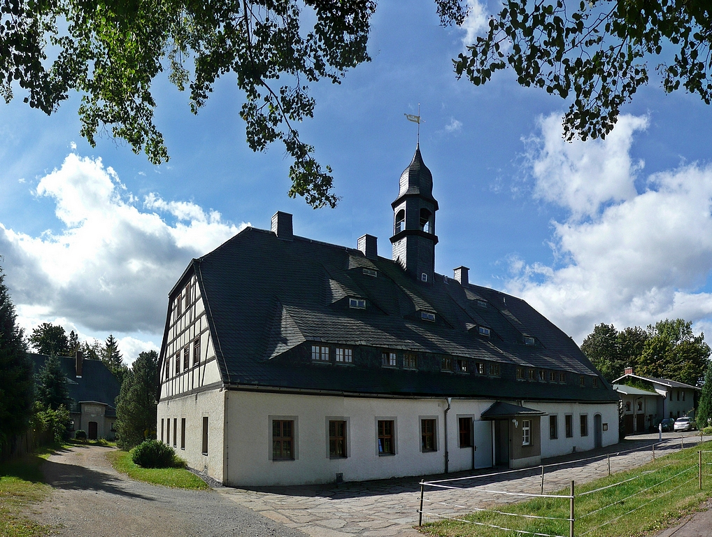 Zug near Freiberg: depot house of the former silver mine "Beschert Glück Fundgrube" (built 1786), cultural heritage monument.